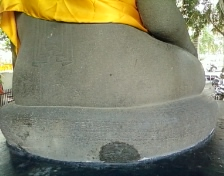 The Wurare inscription is written in Sanskrit, dated 1211 Saka (1289 CE). The inscriptions are made up of a 19 stanza poem, tells a story about a monk by the name of Arrya Bharad who was tasked with separating the island of Java into two areas, Jenggala and Panjalu, because two princes were warring over them. The ancient inscription is found at the base of Mahaksobhya Buddhist statue (locally called "Joko Dolog"), at Apsari Park, Surabaya. Back side picture.